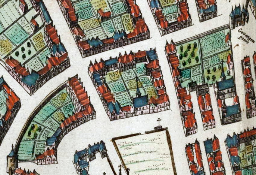 Maastricht, the Netherlands. Detail of a map of Maastricht from the Atlas Maior, published by Blaeu (Amsterdam, 1652), showing the first Medieval city wall along Grote Gracht between Tweebergenpoort (bottom left) and Grote Poort (top right).